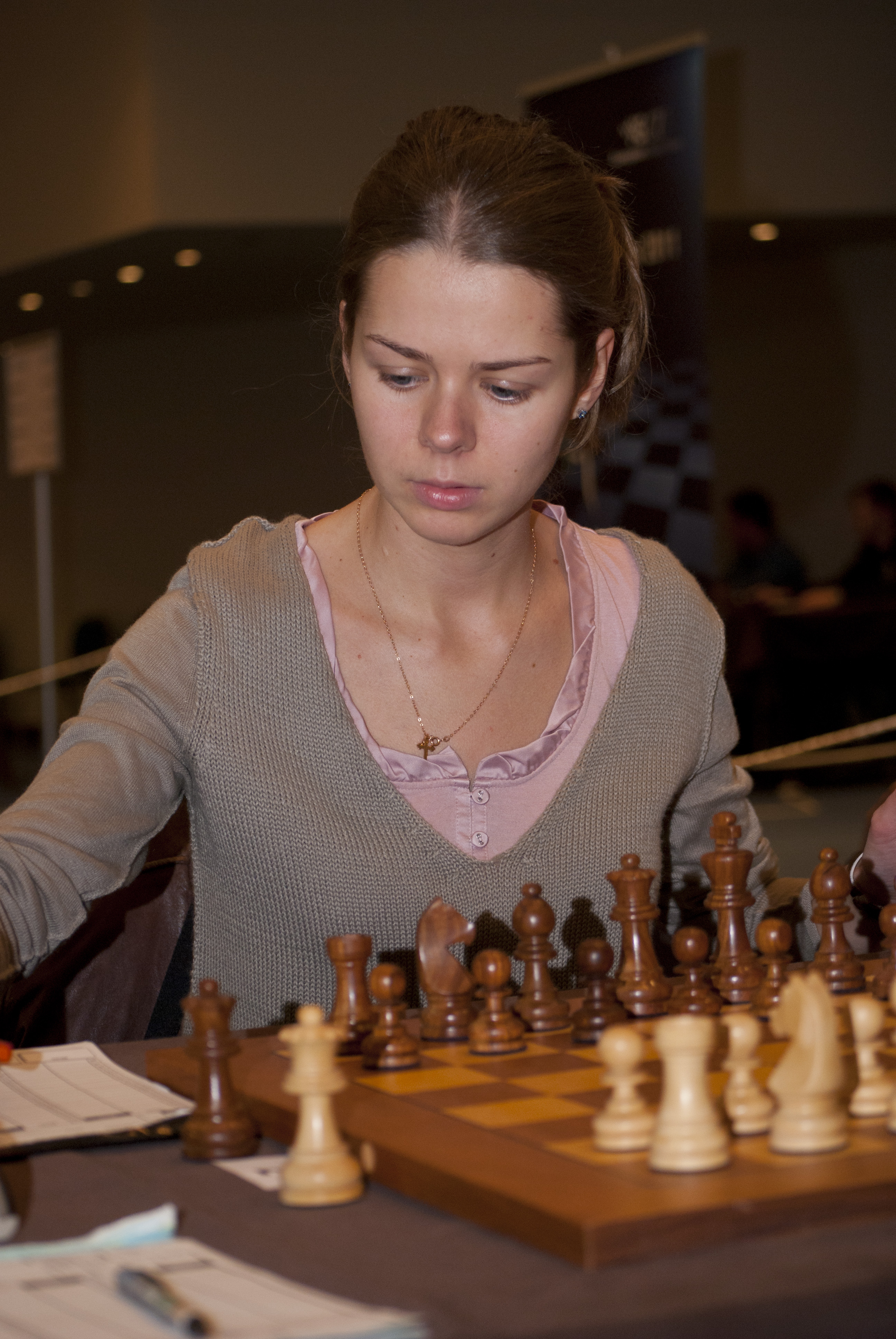 Tatiana Kosintseva on the European Team Chess Club 2011 (ETCC 2011).